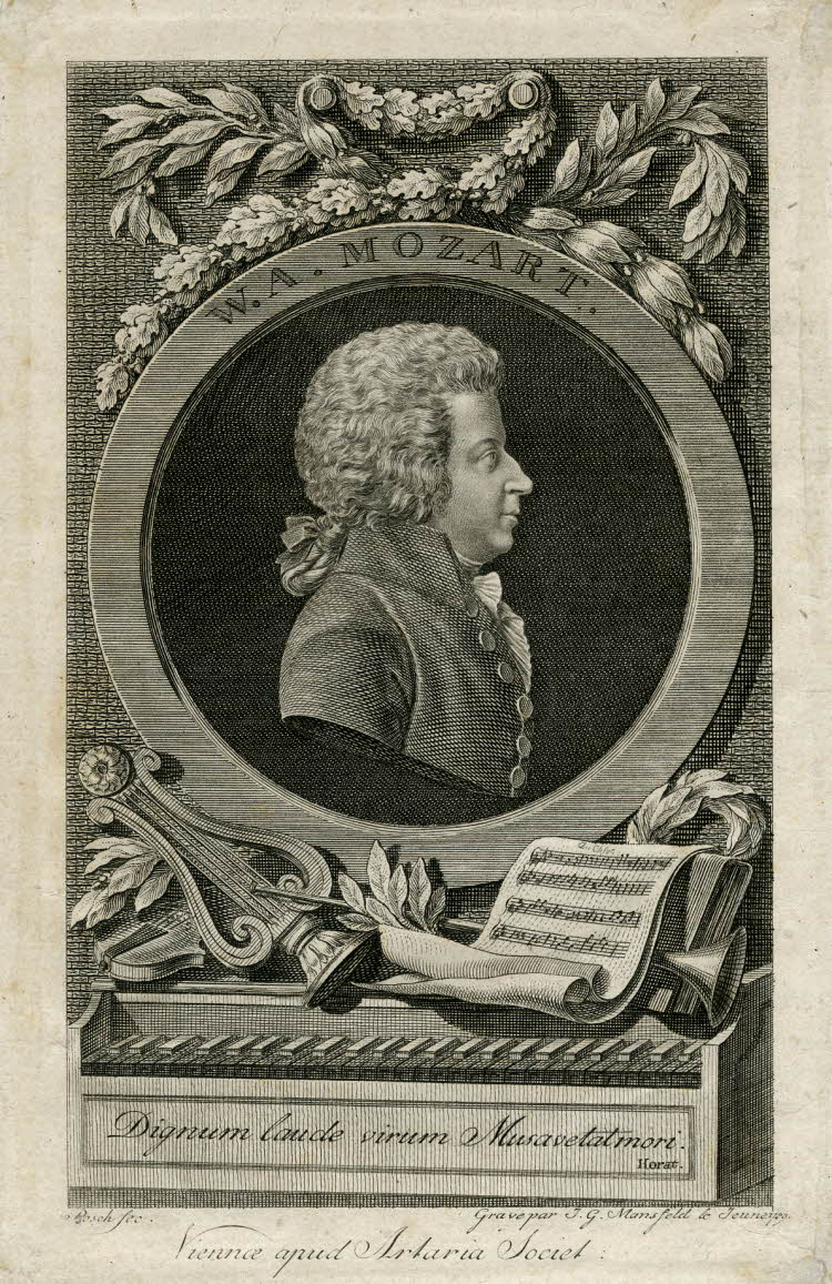 Portrait of Wolfgang Amadeus Mozart; bust-length, standing in profile to right, wearing queue wig, jacket, neckerchief and frill; in round frame surmounted by laurel and oak swags, over a keyboard instrument, on which lie lyre, trumpet, violin, sheet music and book; after a medallion by Posch.